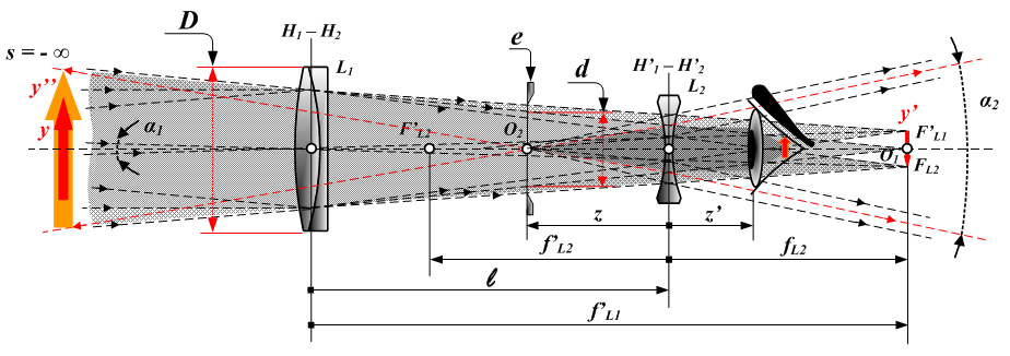 Optical diagram of Galilean telescope.[1]